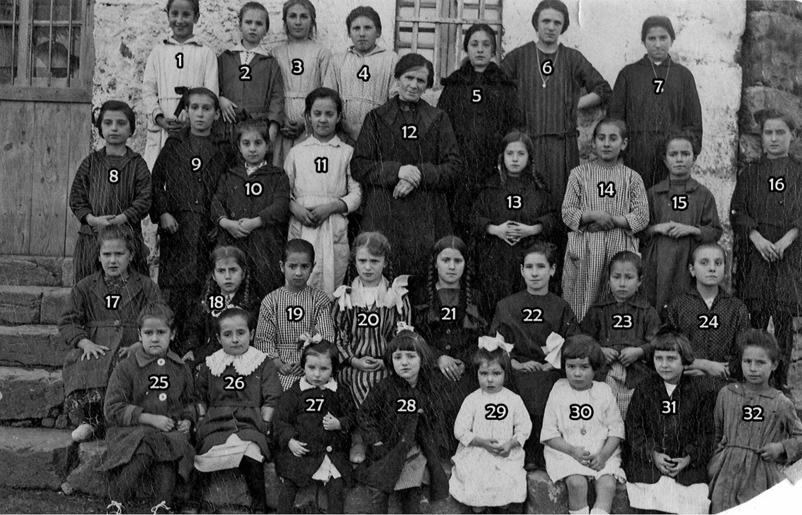 School girls and their teacher in Alkiza 1926-27